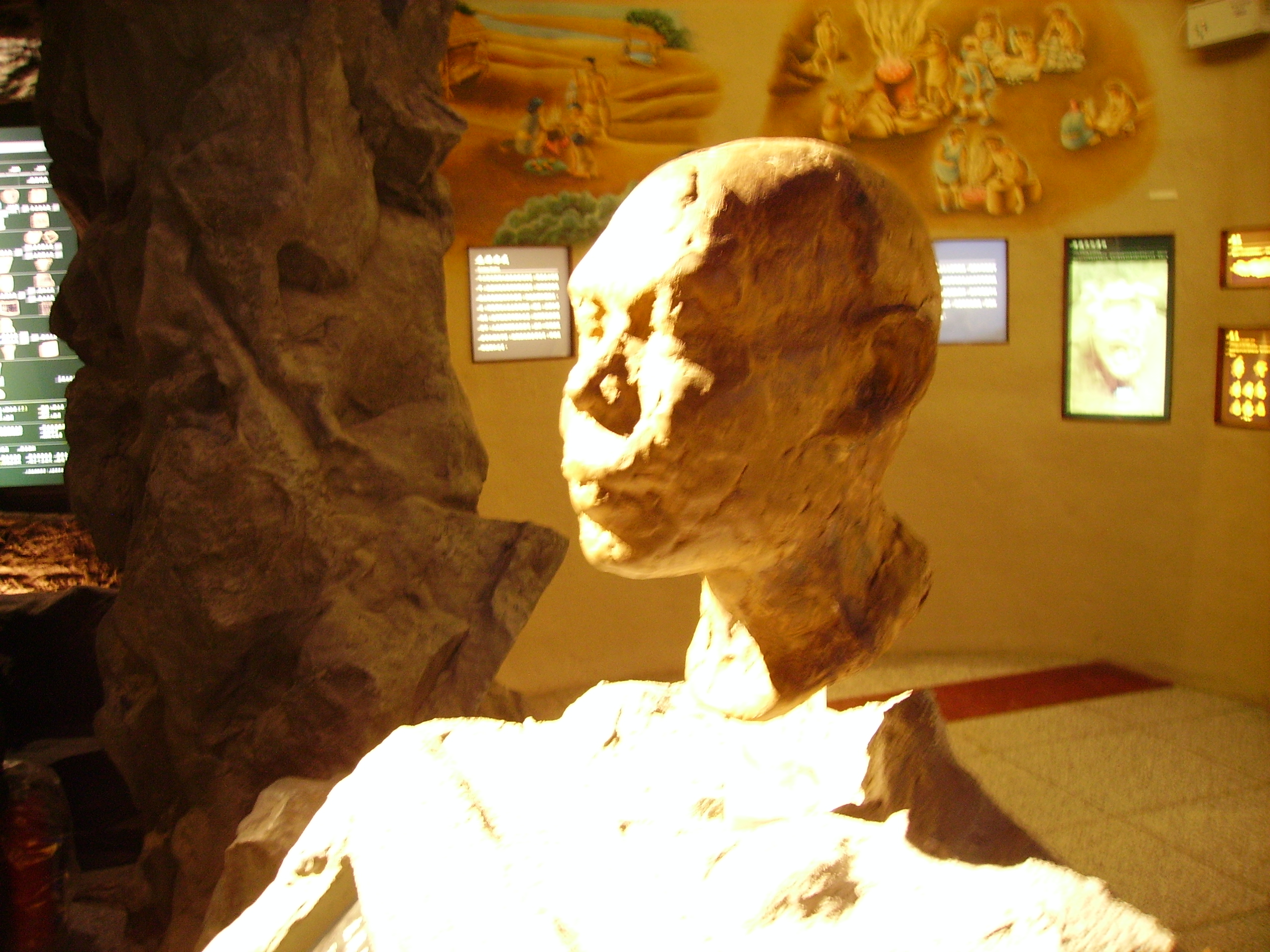 old Taiwanese